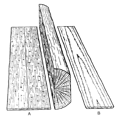 Image taken from US Department of Agriculture, Forest Products Laboratory, The Wood Handbook: Wood as an engineering material, page 3-2, by cutting and pasting using Adobe Acrobat Reader and converting to PNG using Irfanview.